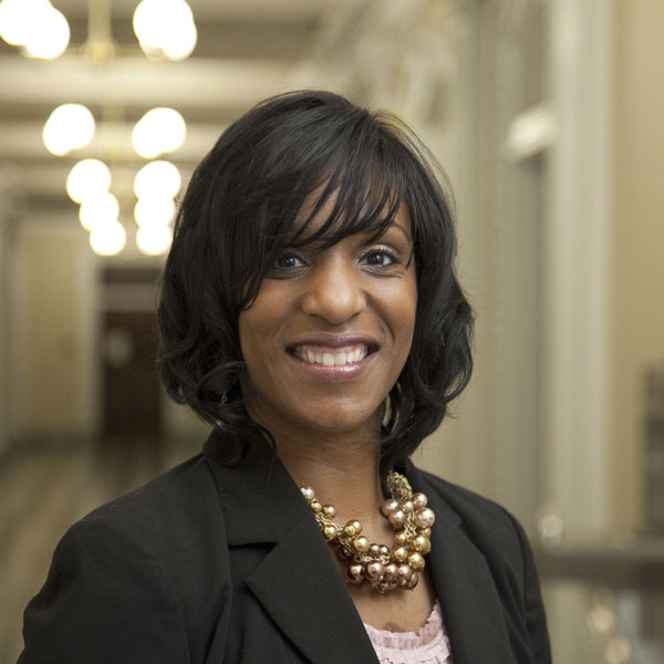 Angela Michelle Byars-Winston is a Professor of Internal Medicine at the University of Wisconsin–Madison. She was the first black woman to be appointed professor of medicine at the University of Wisconsin–Madison. Guess date as 2012